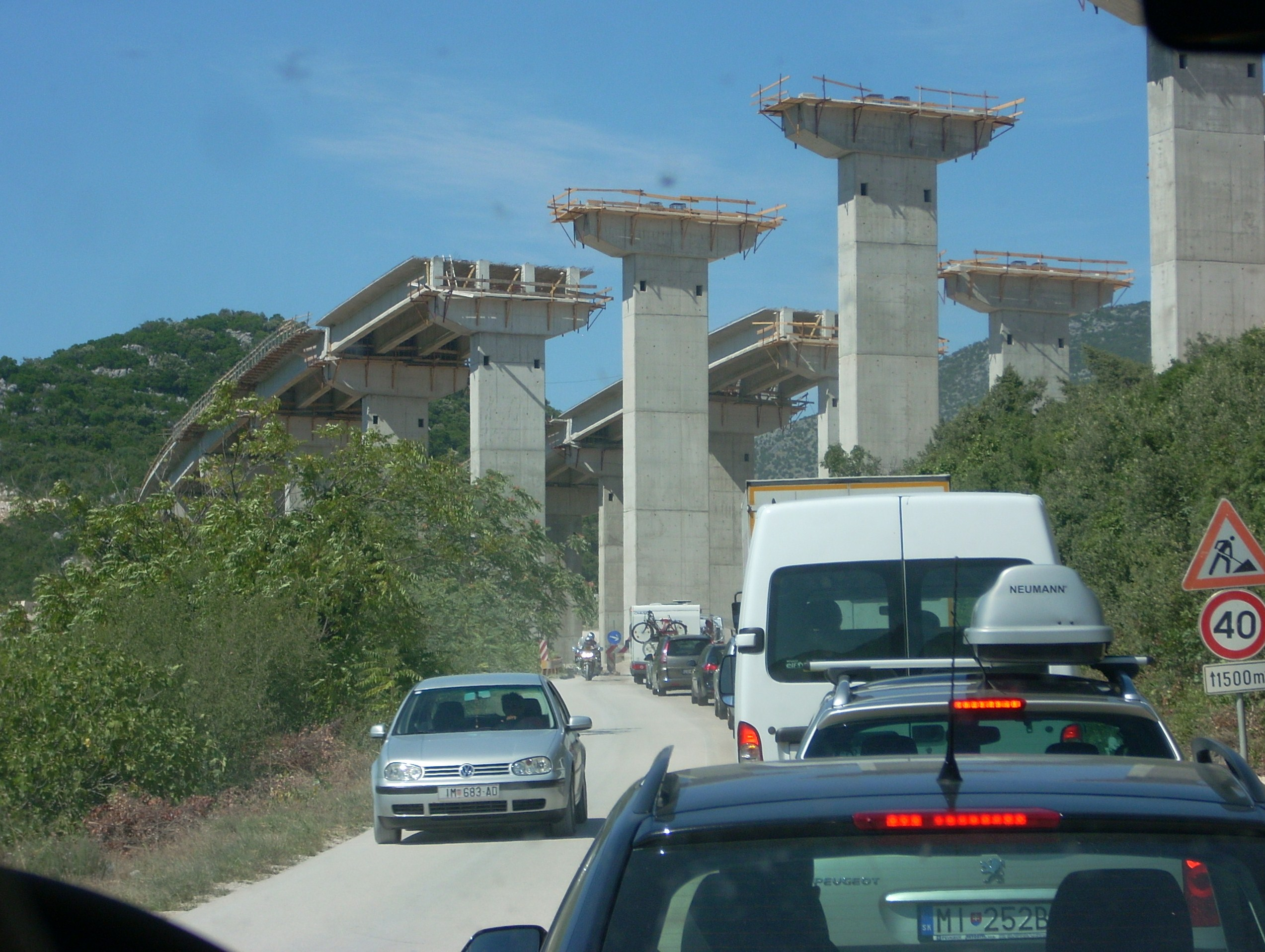 Construction of a bridge of the D425 in Croatia